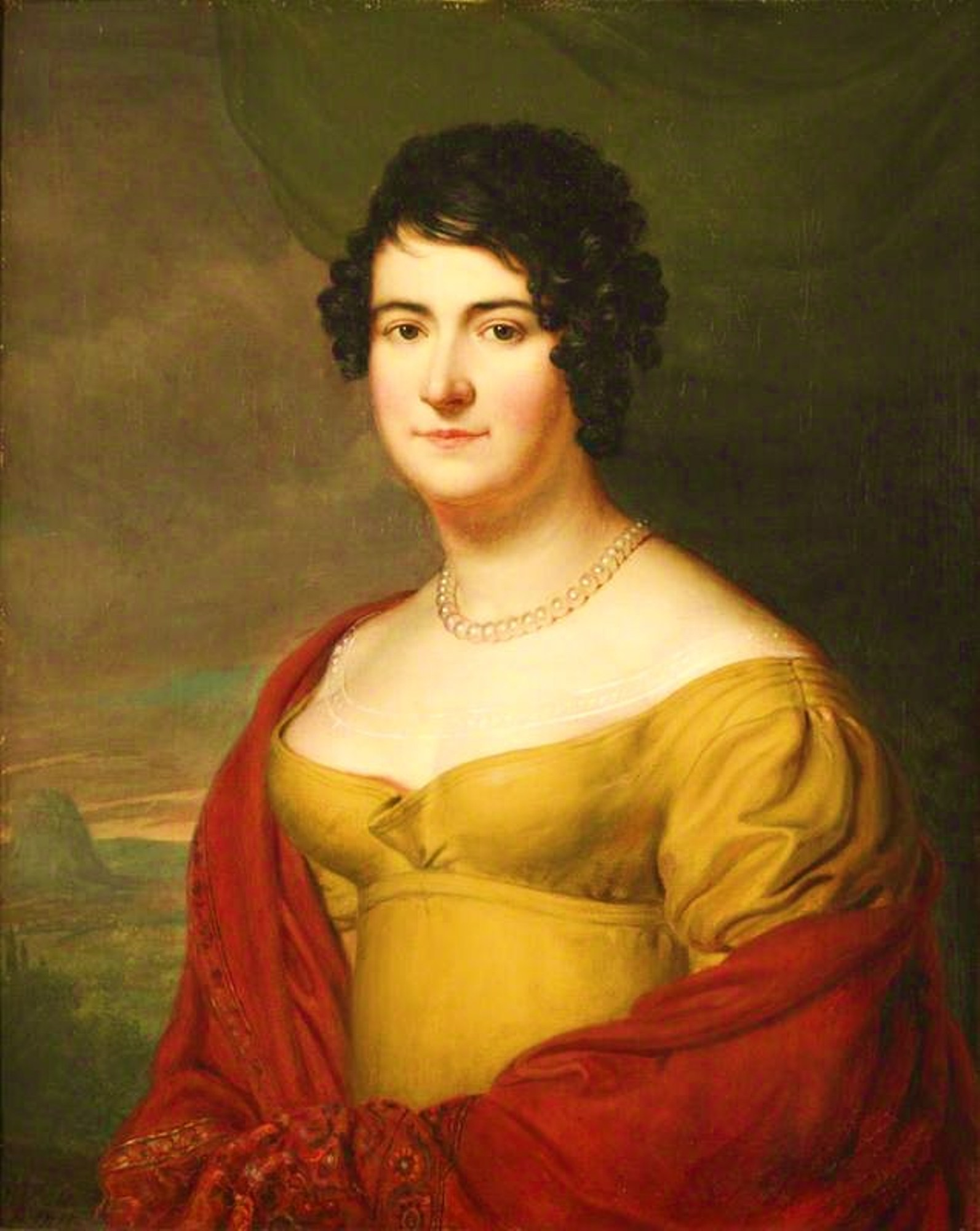 A Creole orphan niece of the notorious Mme de Genlis, governess to Philippe Egalité’s children, and mother of some of them, Henriette was taken by her on the outbreak of the French Revolution to England and then to Hamburg, where she married the banker Johann Conrad Matthiessen in 1796. Their daughter Emma Conradine (1801-1831) was married to Charles Standish (1790-1863), the eldest son of Lord Thomas Strickland Standish (1763-1813), in 1822. In 1801 Henriette divorced Matthiessen and married the Swiss Baron Henri de Finguerlin-Bischingen. Their daughter, Gasparine, was married to Charles’s younger brother,Thomas Strickland Standish of Sizergh (1792-1835).